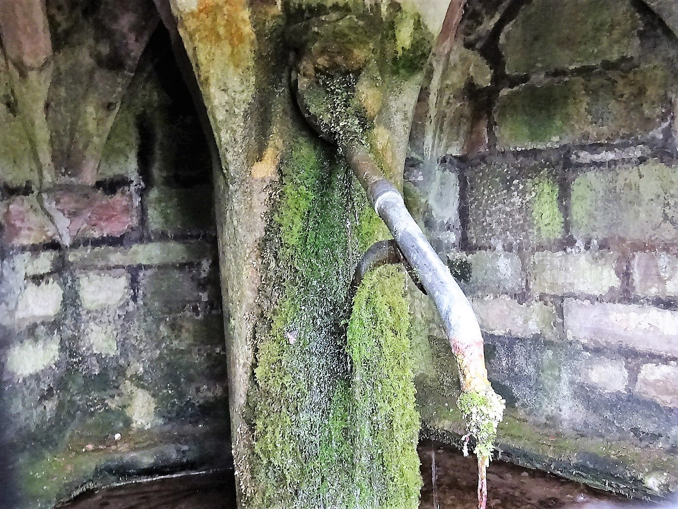 St Margaret's Well interior and pipe, Holyrood Park, Edinburgh, Scotland. Moved here from Jock's Lodge in 1860.